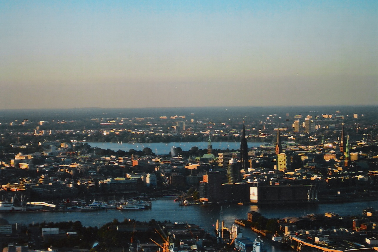 Hamburg from a Ballon